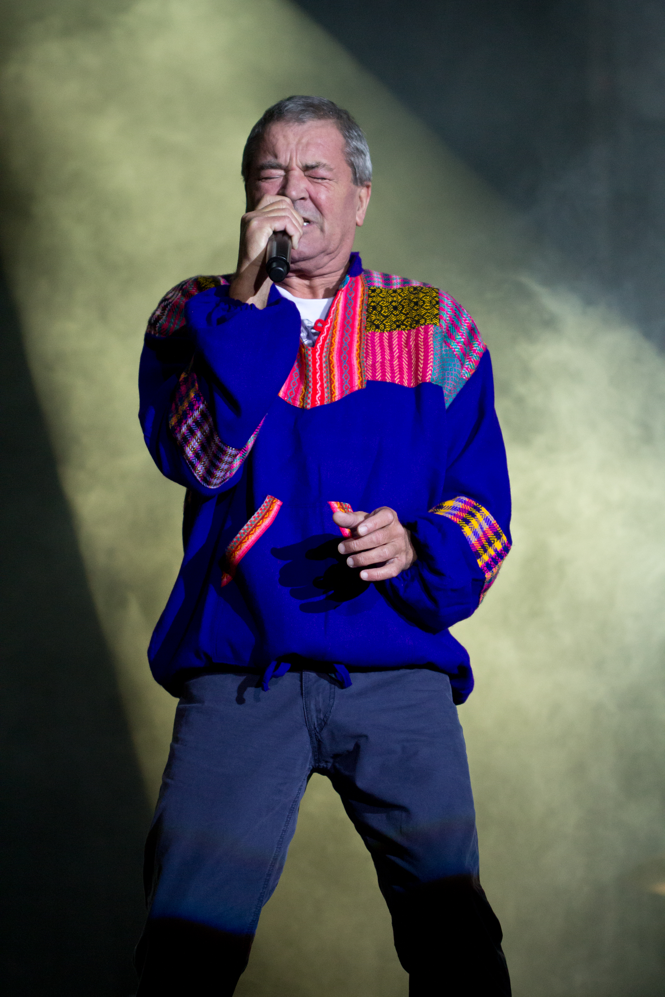 Deep Purple's vocalist Ian Gillan performing at Músicos en la naturaleza 2013 in Hoyos del Espino, Ávila, Spain.